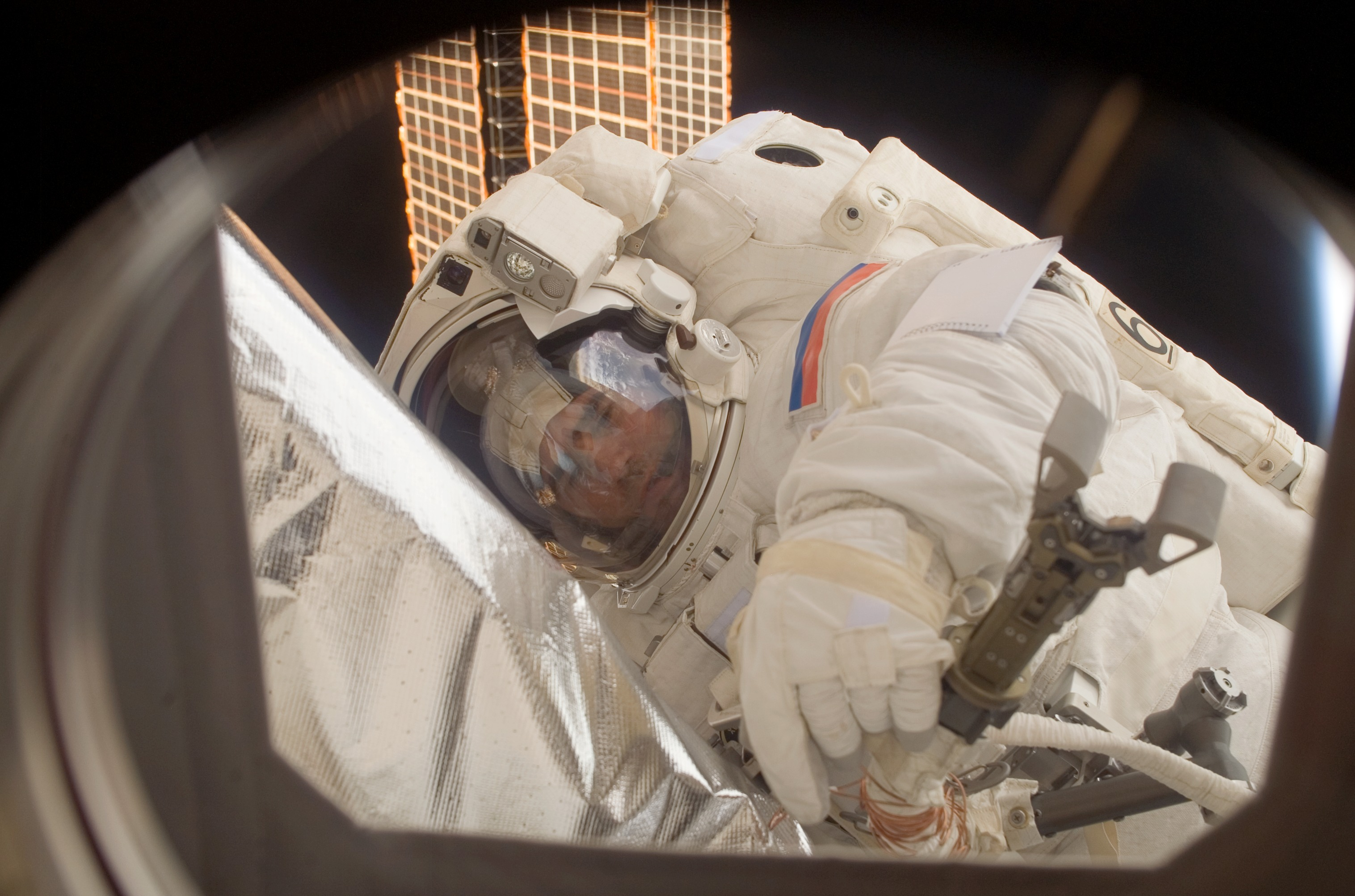 Cosmonaut Yuri I. Malenchenko, Expedition 16 flight engineer representing Russia's Federal Space Agency, participates in a session of extravehicular activity (EVA) as construction continues on the International Space Station (ISS). During the spacewalk Malenchenko and astronaut Peggy A. Whitson (out of frame), commander, prepared for the relocation of the Pressurized Mating Adapter 2 (PMA-2) and the subsequent move of the new Harmony node to its permanent ISS home.